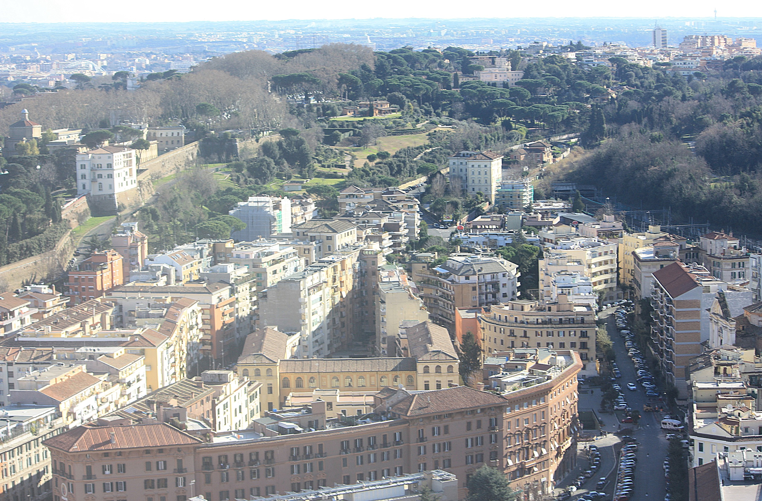 Vatican, view from the dome of the Saint Peter's Basilica to the hill Gianicolo